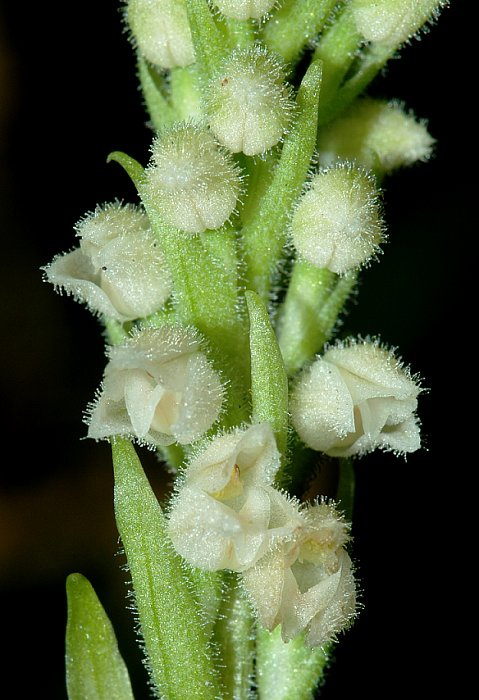 Goodyera repens, flowers, Rhön, Germany